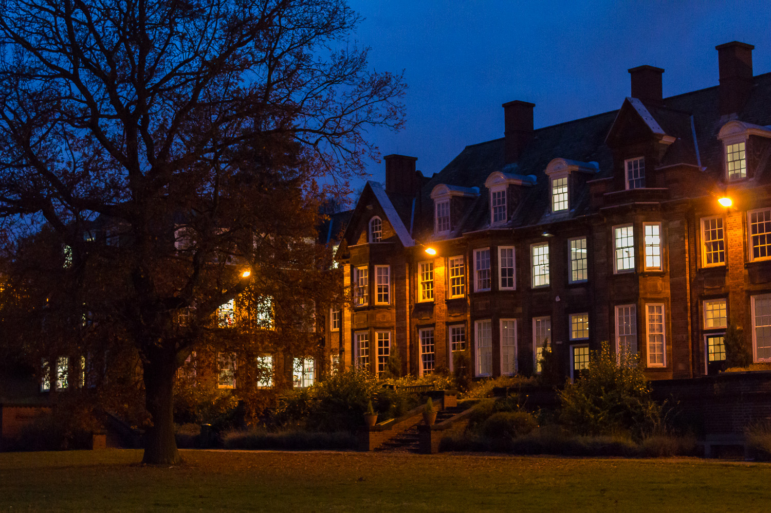 BBS, November 2012